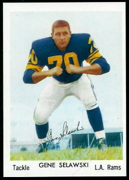 A 1959 promotional image of Los Angeles Rams player Gene Selawski.